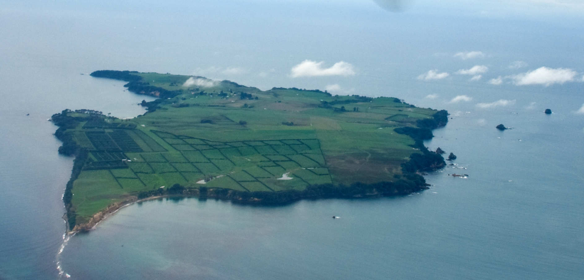 Motiti Island, Bay of Plenty, New Zealand